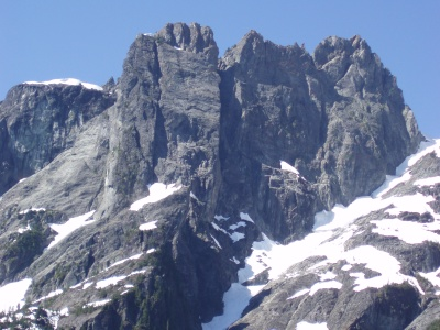 Shows Edge Peak from an old logging road and trail to Golden Ears, from the north. This view shows the complex nature of the summit, and the many huge walls not visible from Vancouver.